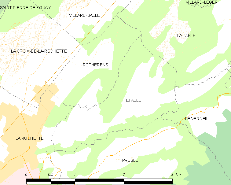 Map of French municipality